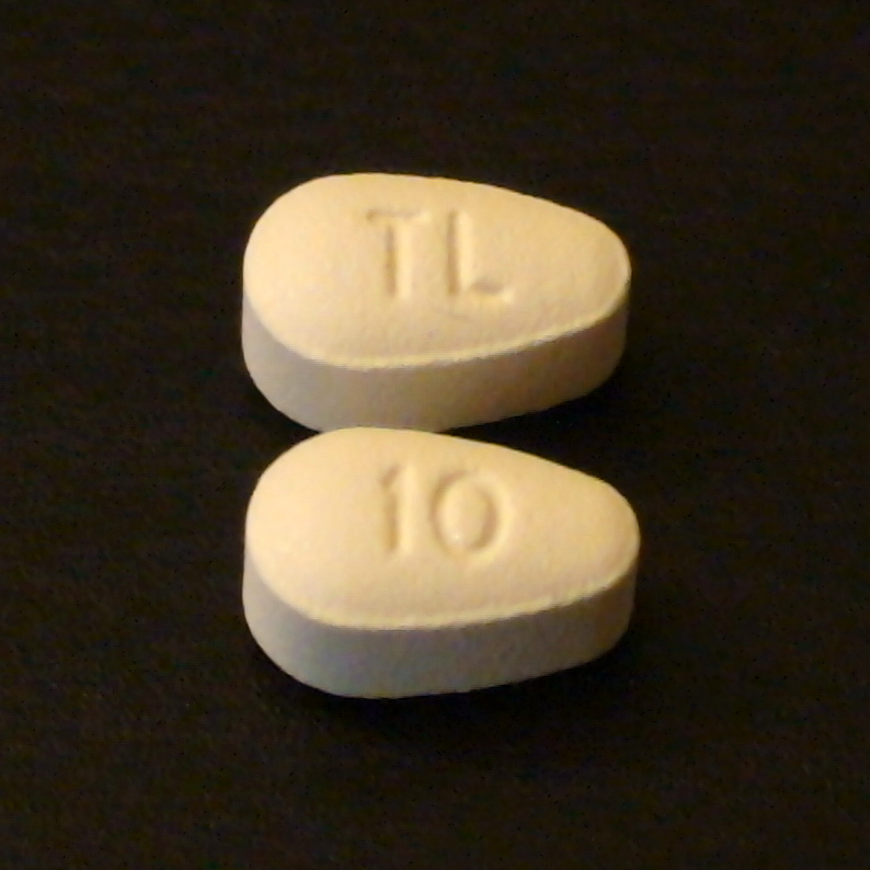 10mg tablets of brand-name vortioxetine (Trintellix, formerly known as Brintellix).